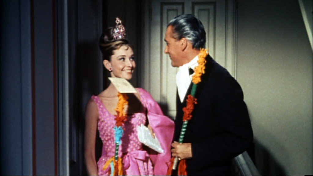 Audrey Hepburn and José Vilallonga at Breakfast at Tiffany's.